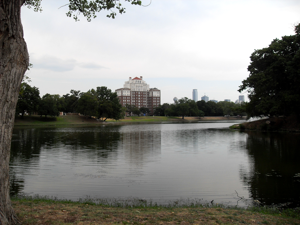 Downtown Dallas, as seen from Lake Cliff Park.